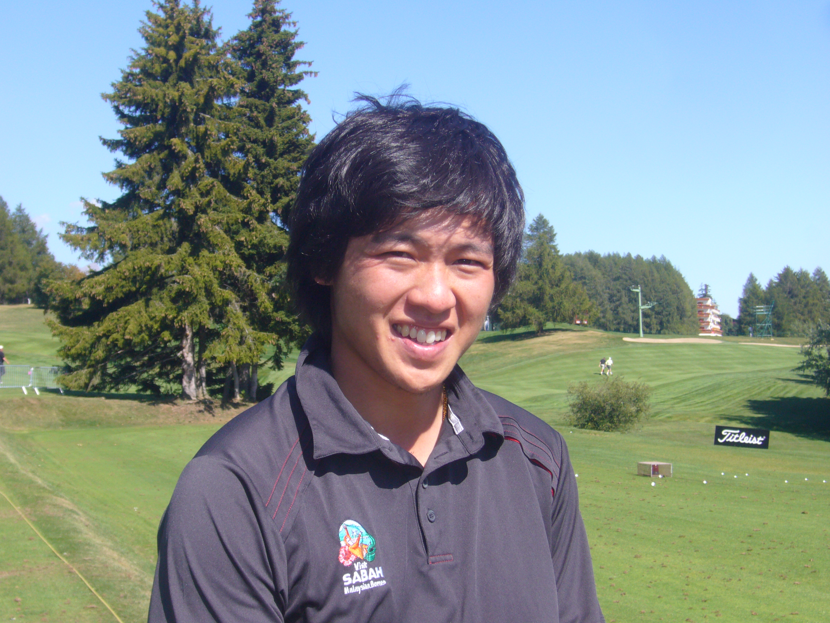 Ben Leong, Malaysian profssional golfer, at European Masters in Crans